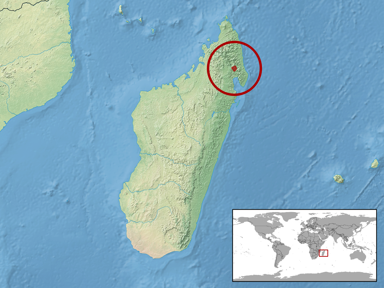 geographic distribution of Amphiglossus spilostichus